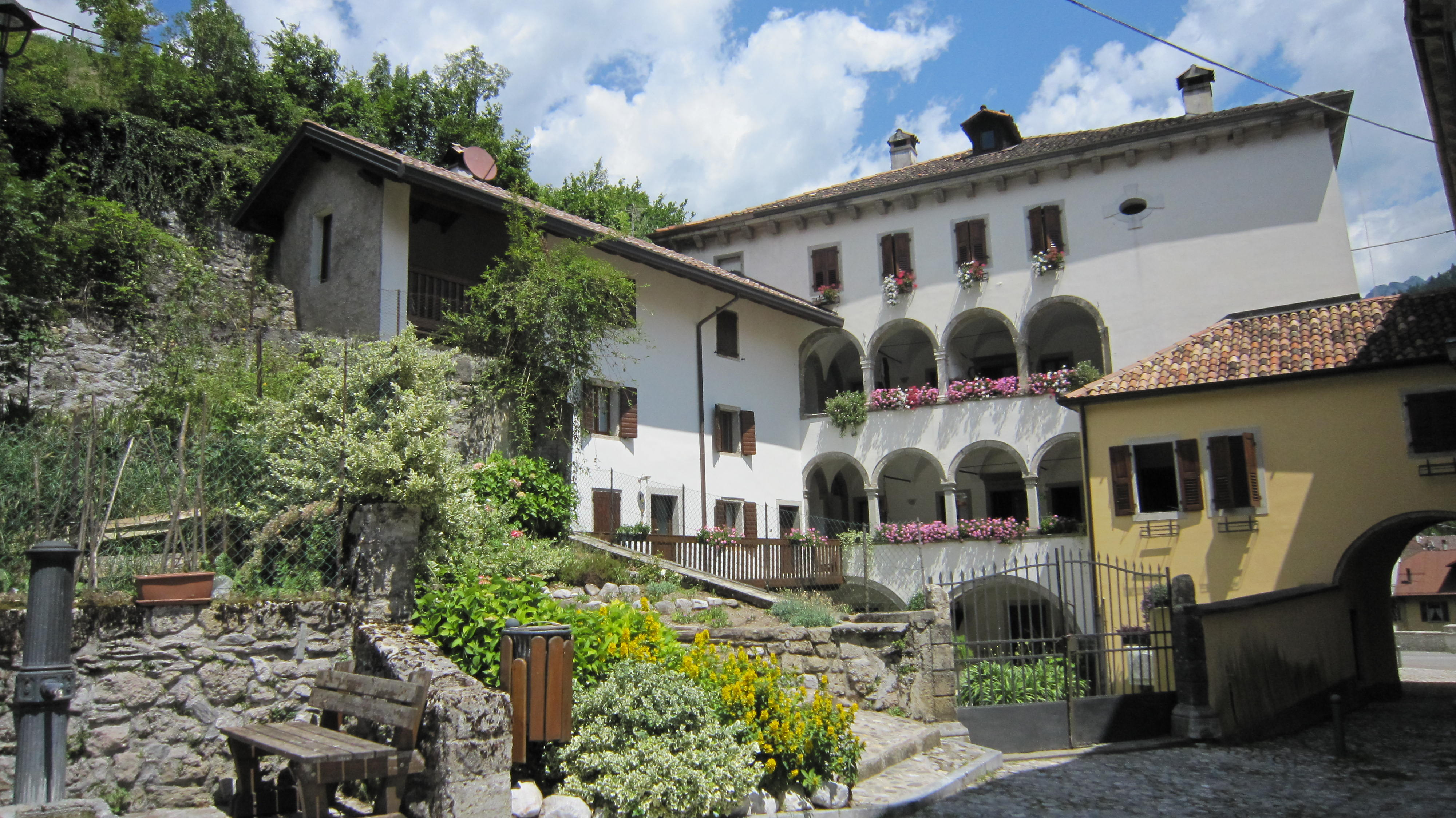 palazzo screm